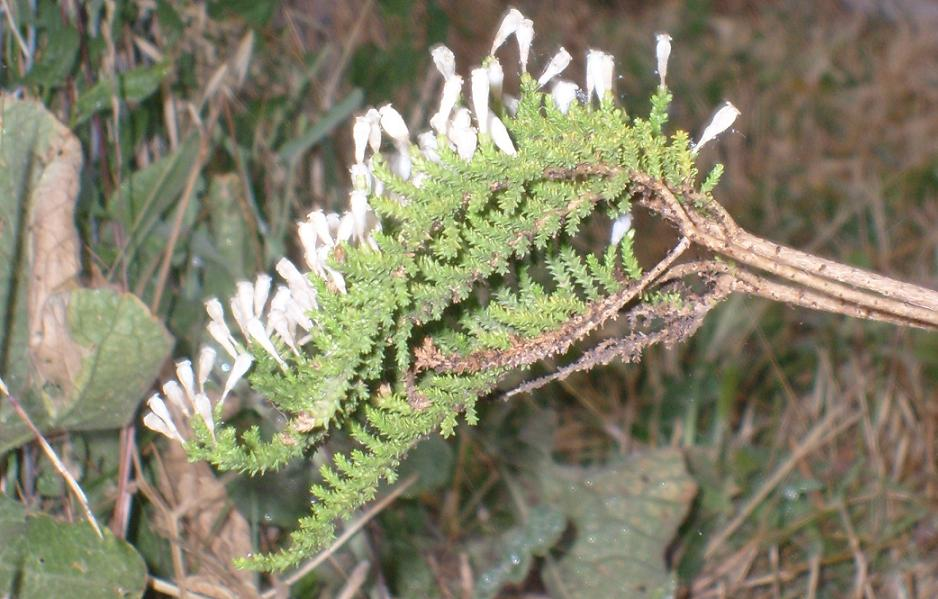 Fabiana imbricata, shrub growing at Biohuerto P. Univ. Catolica de Chile, Santiago San Joaquin